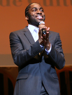 Lázaro Ramos was the host of the 5th edition of the award BRAVO! Prime de Cultura in 2009.